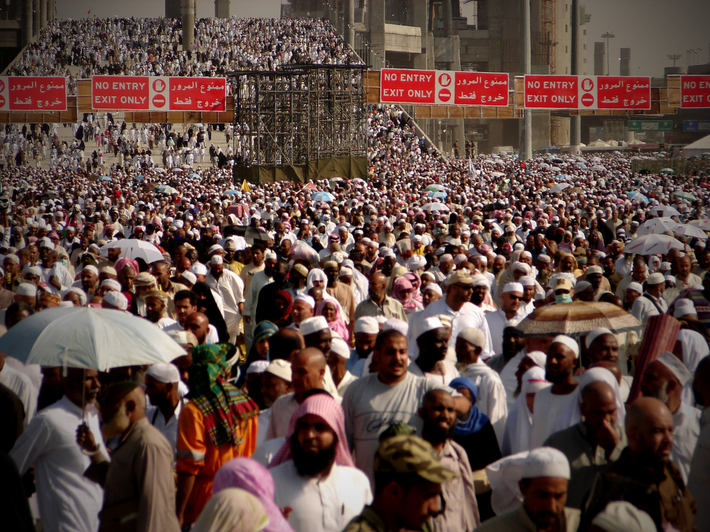 The Jamaraat Bridge (Mina) during Hajj 2008.